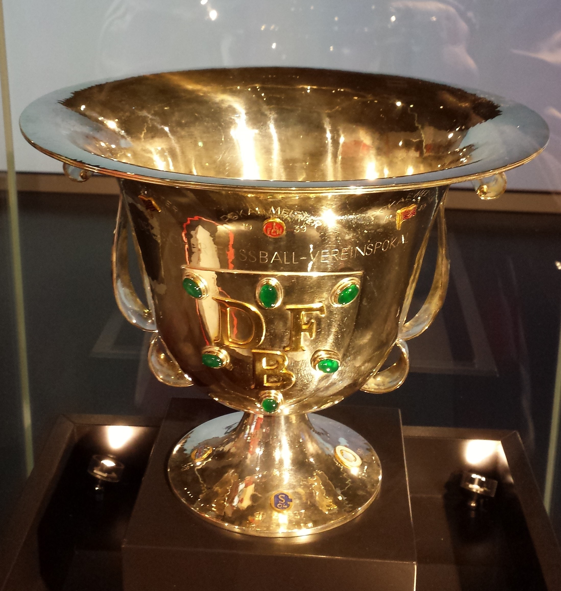 Copy of the Tschammer-Cup Trophy, shown in the FC Bayern Erlebniswelt.